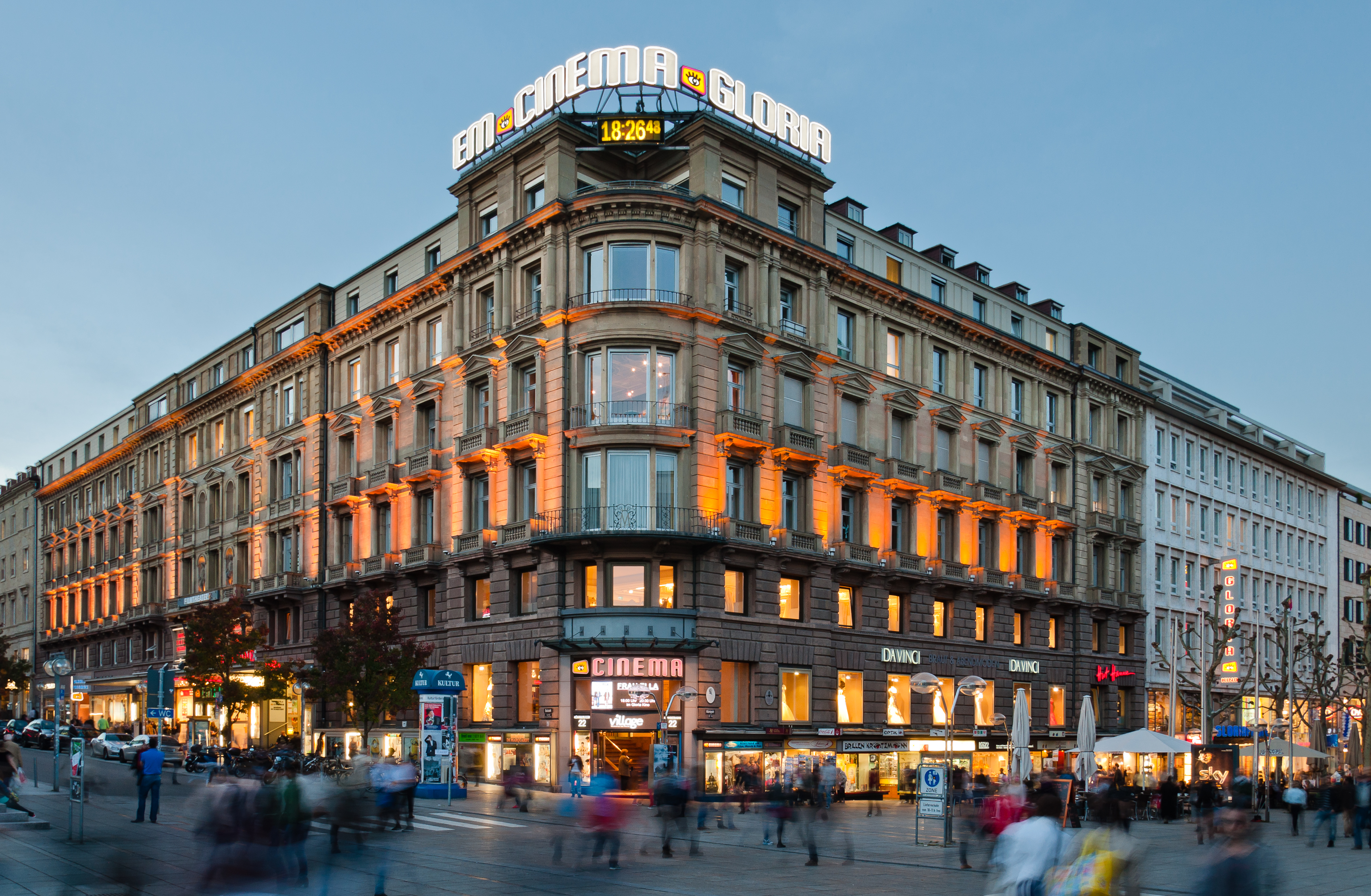 The "Marquardtbau" at the northern side of Schloßplatz in Stuttgart, Germany.